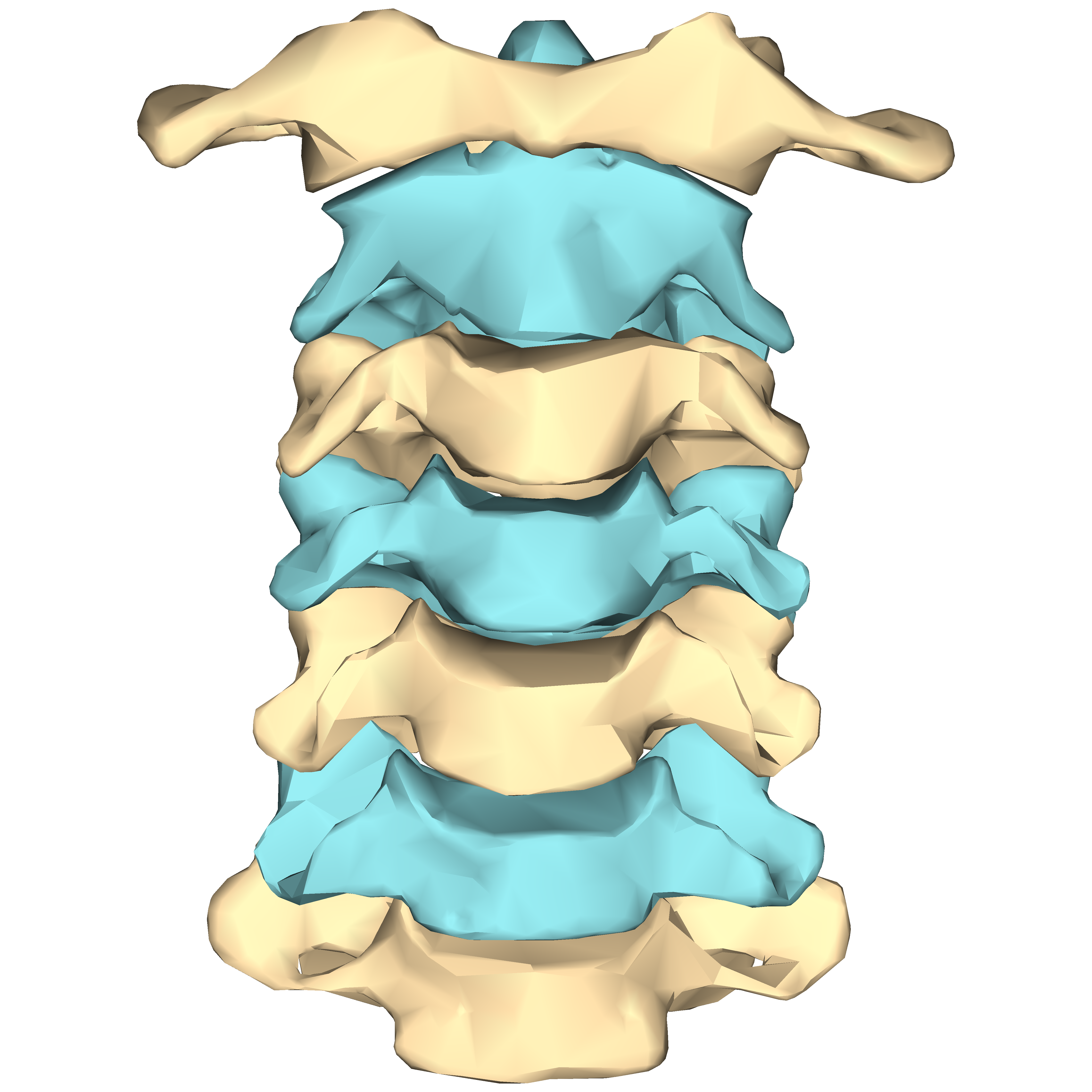 Cervical vertebrae.